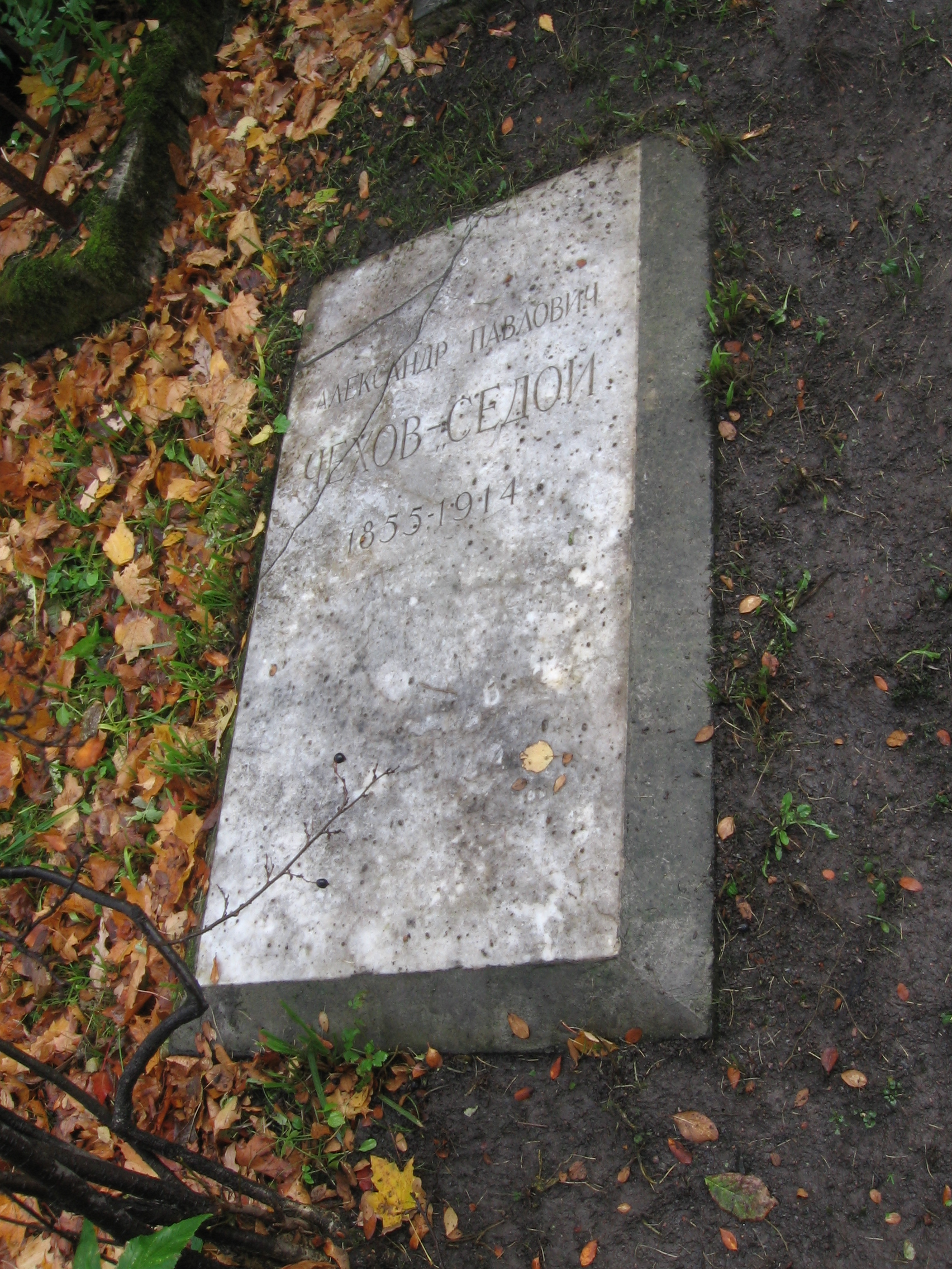 Grave of Alexander Chekhov